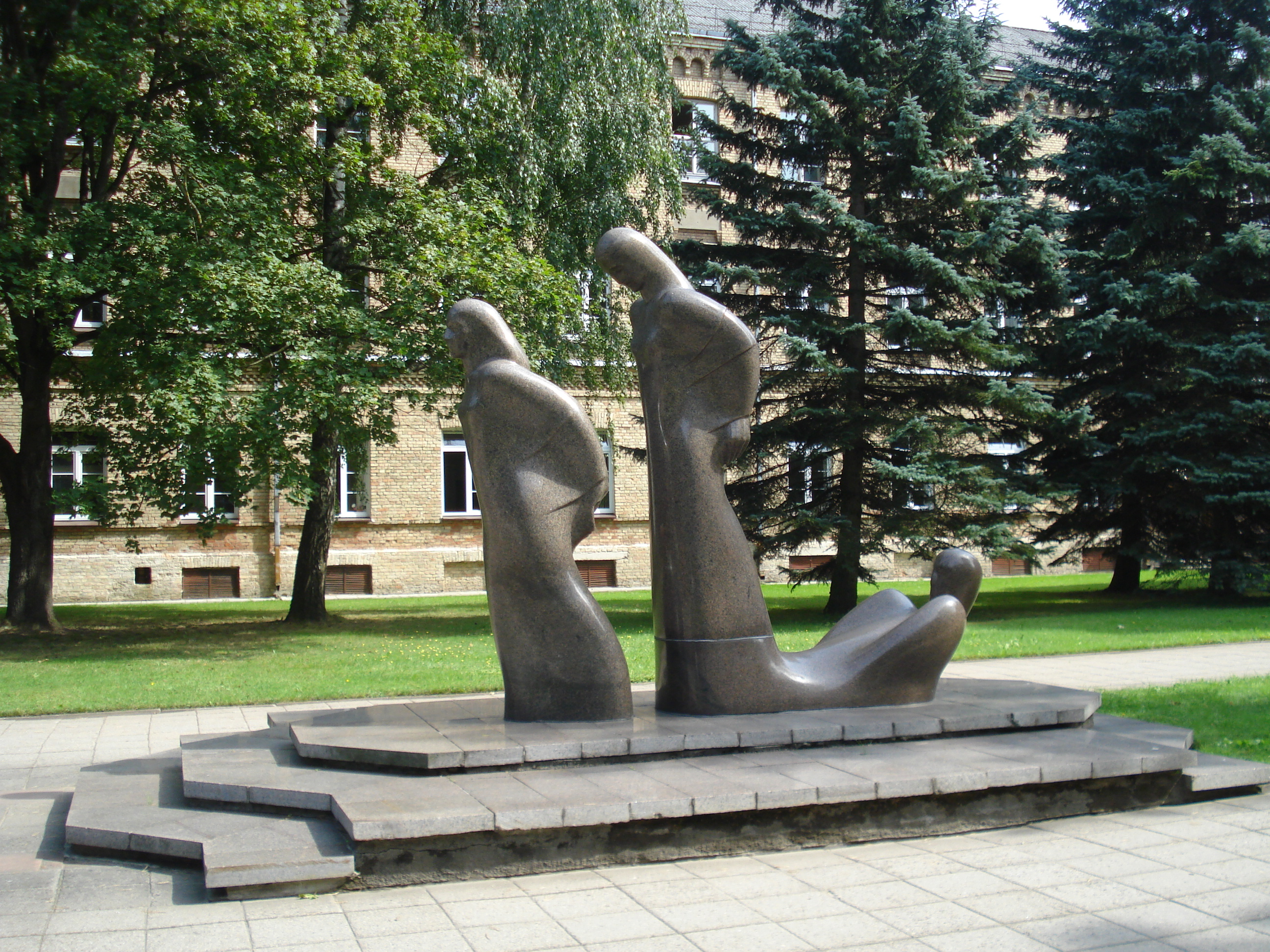 The Republican Vilnius Psychiatric Hospital in Naujoji Vilnia (Parko g. 15), is one of the largest health facilities in Lithuania; build in 1902, official opening on 21 May 1903